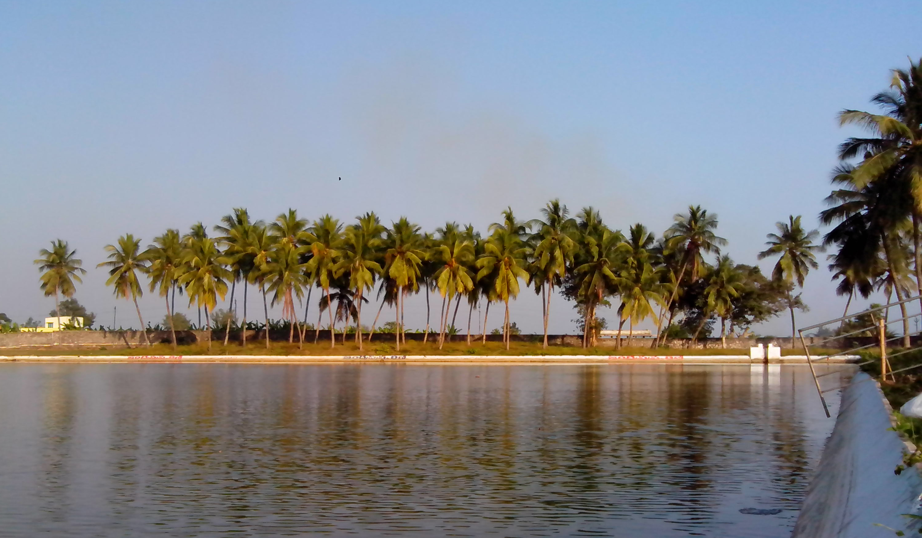 Pushkarini(Temple Pond) at Arasavilli in Srikakulam